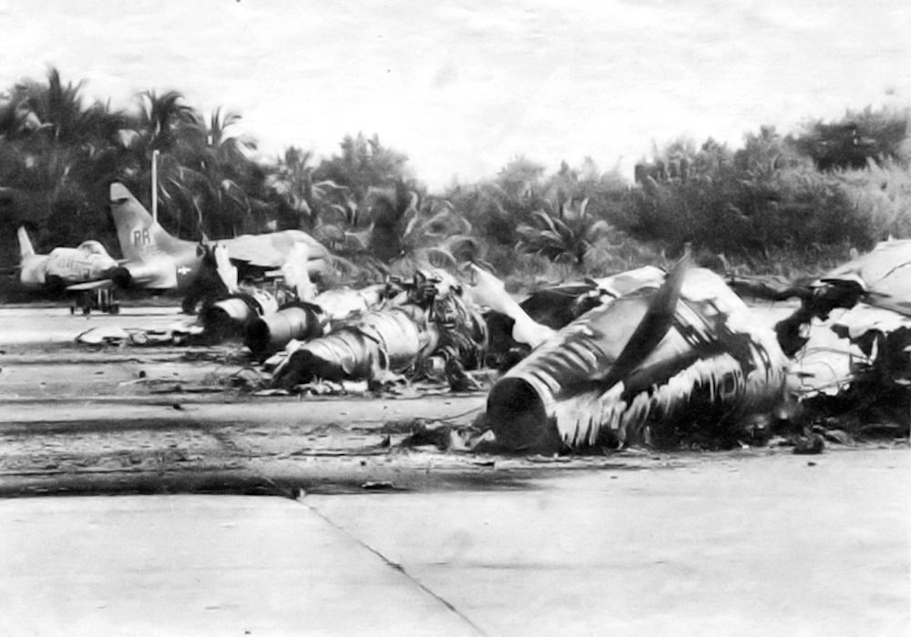 Destroyed A-7D aircraft of the Puerto Rico Air National Guard destroyed at Muñiz Air National Guard Base, 12 January 1981